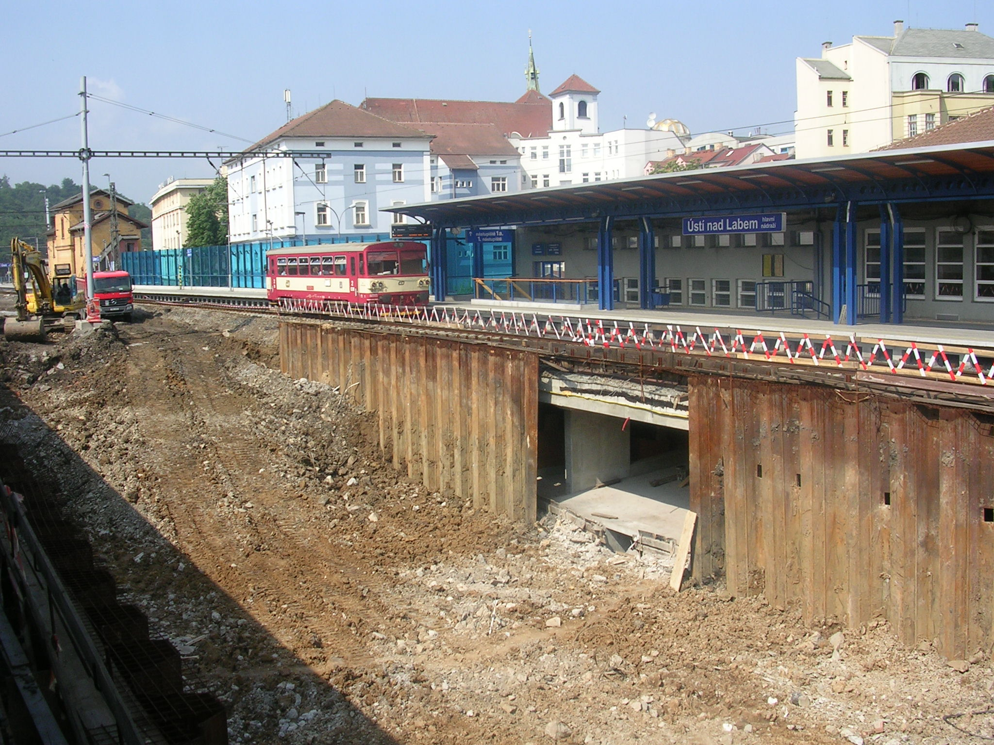 Train station Ústí nad Labem hlavní nádraží, the Czech Republic.